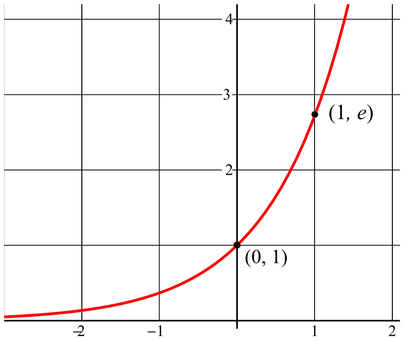 The exponential function e^x